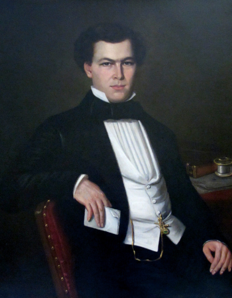 Portrait of George Matthews Marshall by Louis Joseph Bahin, ca. 1853, oil on canvas, Lansdowne Plantation, Natchez, Mississippi